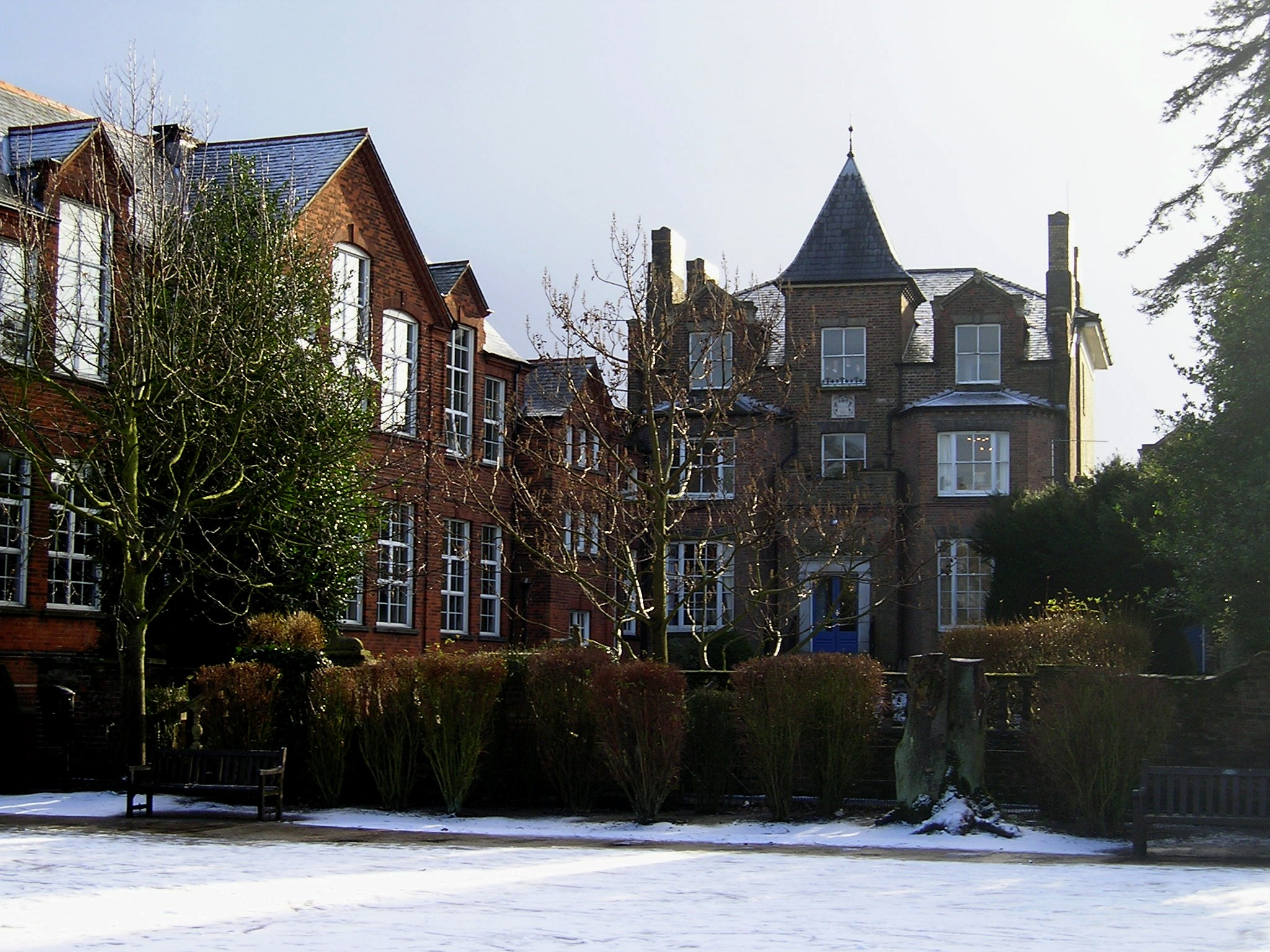 The back of Wisbech Grammar School's main house (Harecroft House) taken circa 2005 by Robert Weedon.